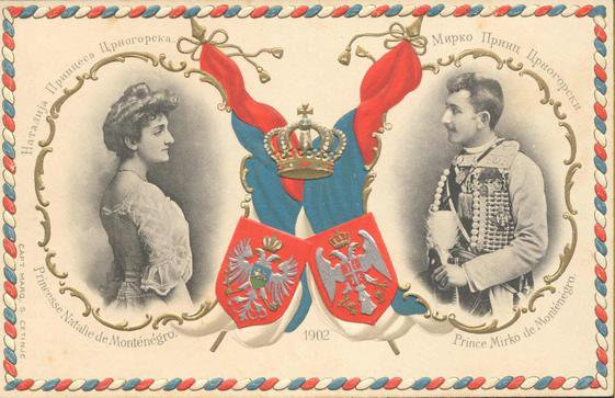 Card representing marriage (1902) of Prince Mirko of Montenegro with Natalija Konstantinović, cousin of King Aleksander I of Serbia.